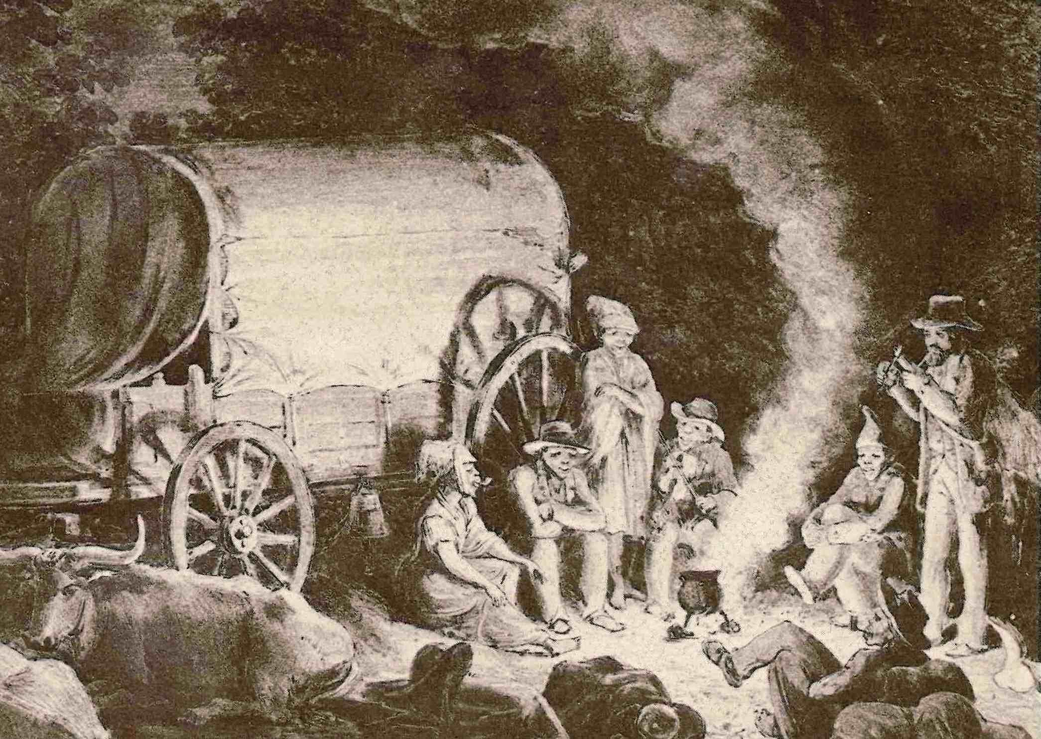 Afrikander trek boer nomads - Possibly Griqua. Cape Colony 1800s.